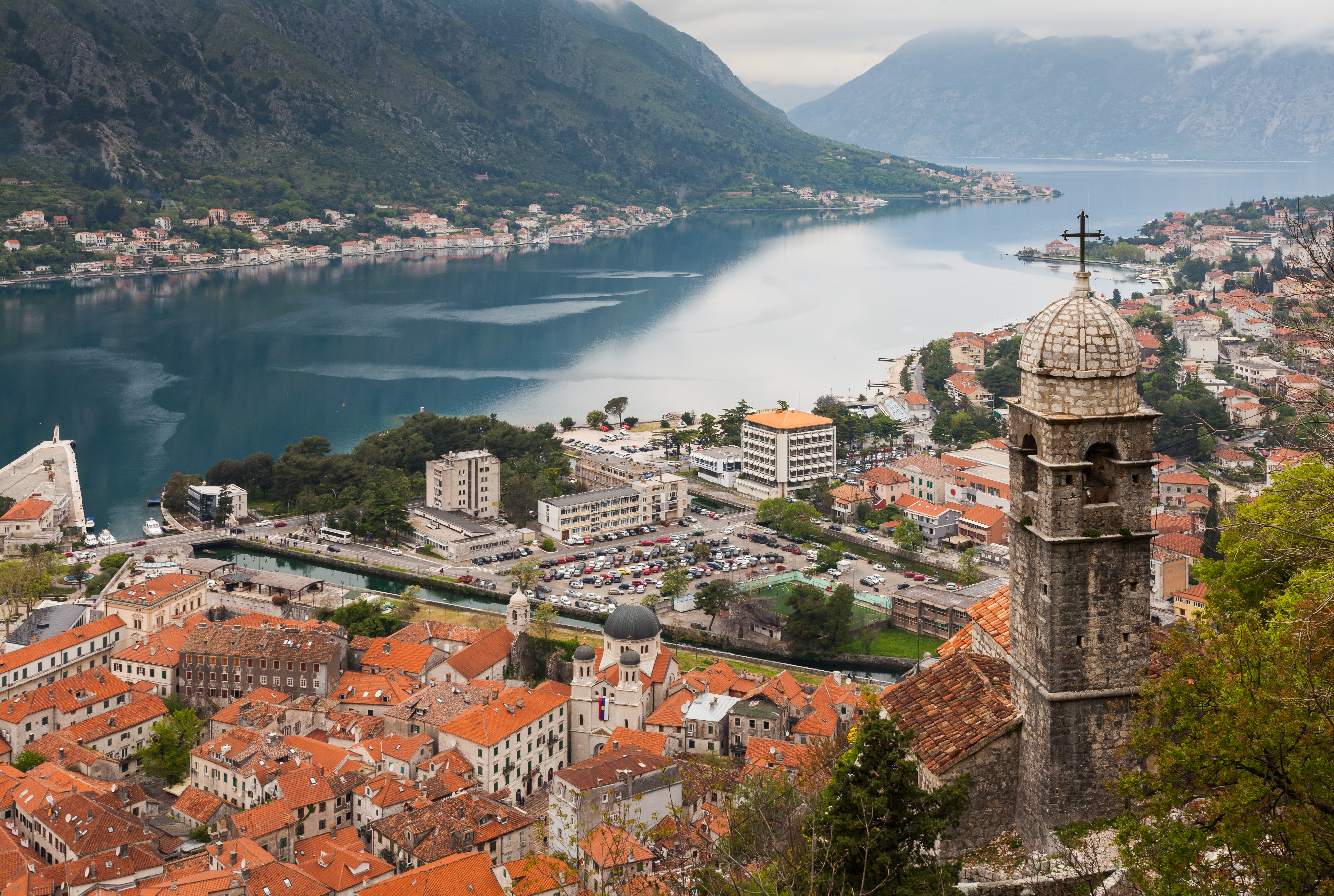 Church of Our Lady of Remedy, Kotor, Bay of Kotor, Montenegro